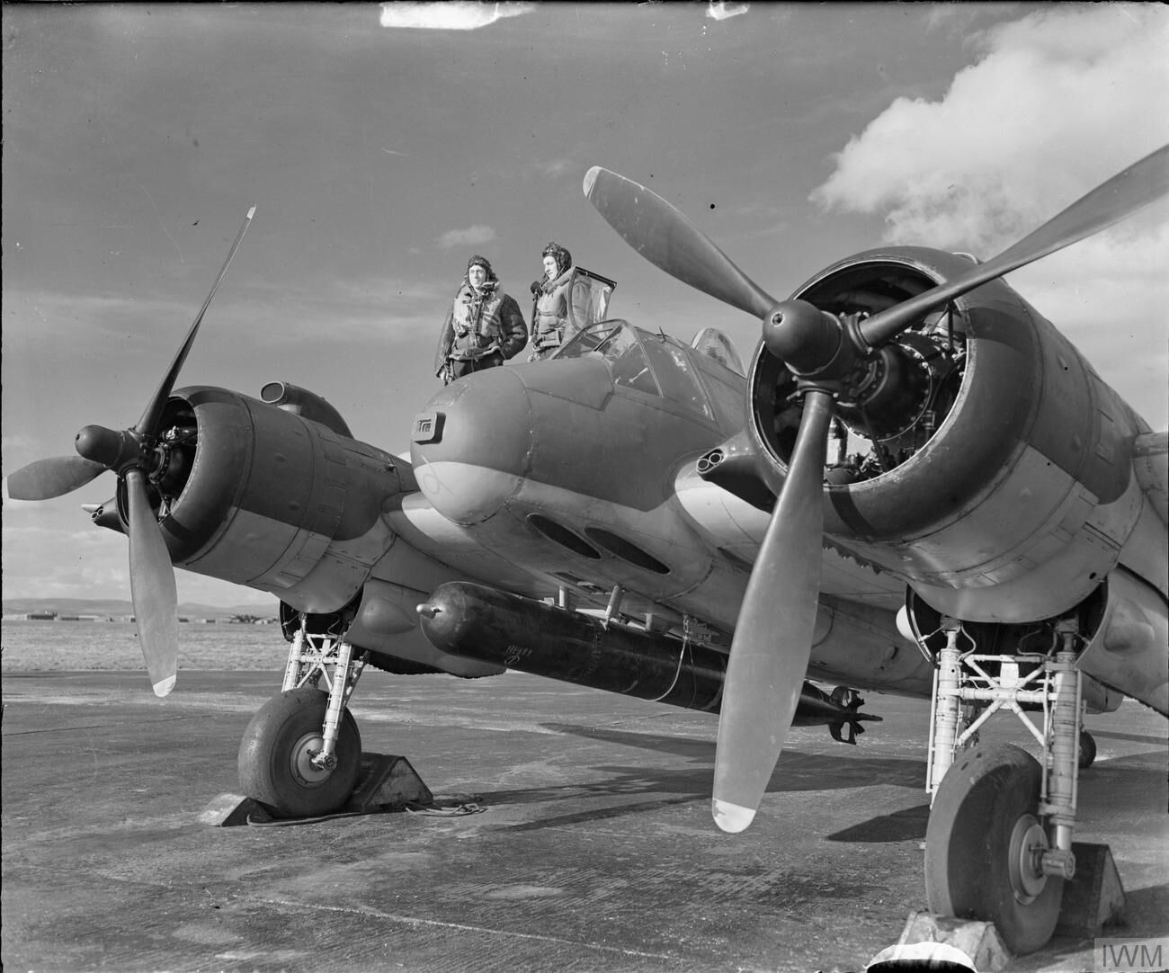 Royal Air Force Coastal Command, 1939-1945. The crew of a Bristol Beaufighter Mark VIC (ITF) of No 144 Squadron RAF stand by the cockpit of their aircraft at a dispersal at Tain, Ross-shire. The Interim Torpedo Fighter, or "Torbeau" as this version was known, is armed with a Mark XII aerial torpedo. Note the aerial camera port in the nose.